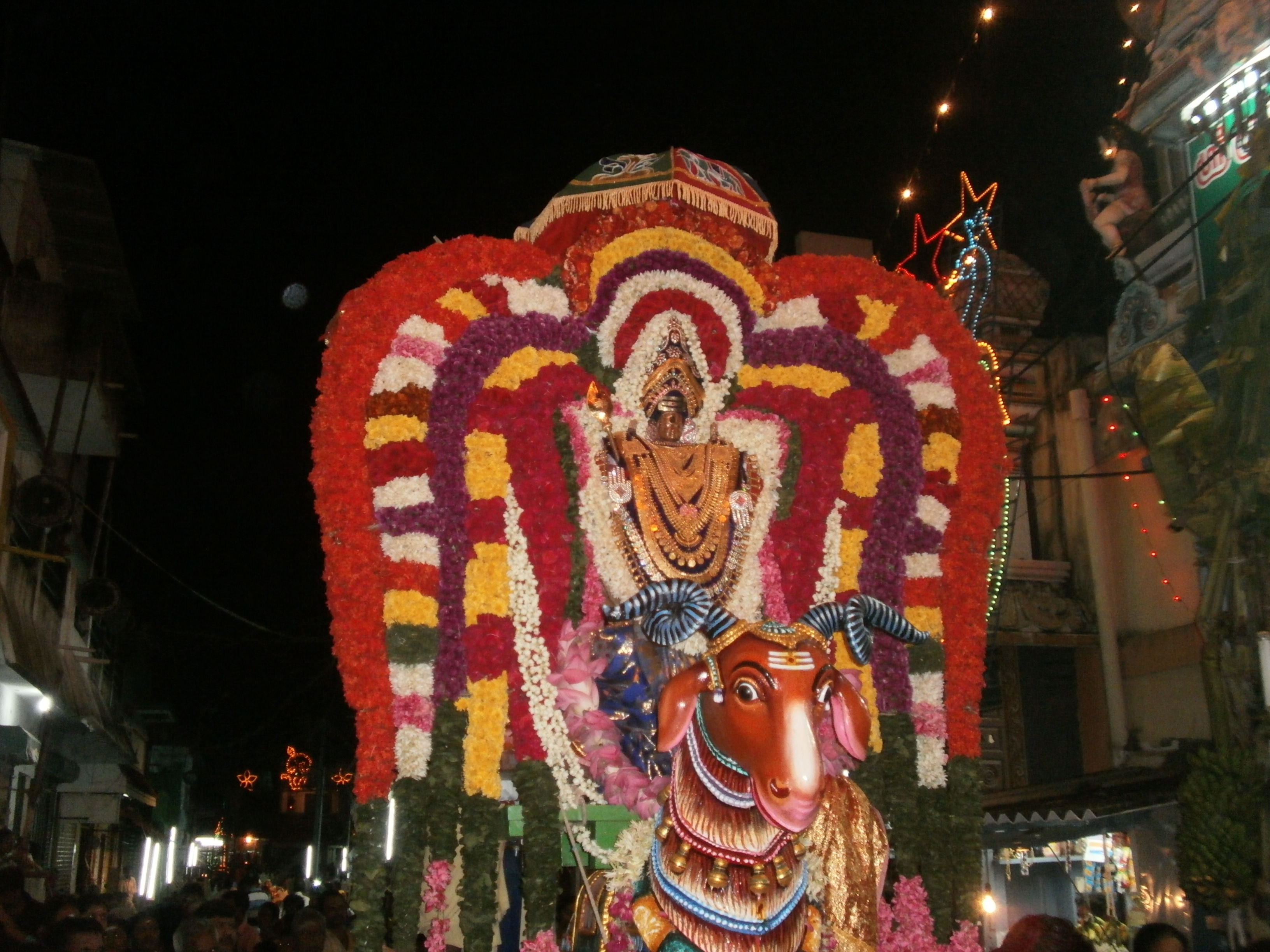 Murugar Statue worshiped in Soorasamharam